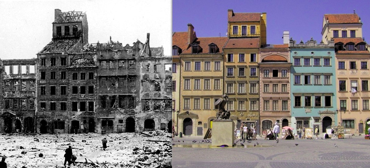 Like Phoenix from the Ashes, Warsaw, Old Town Market Place, North Facade (Dekert's Side), Photo montage: January 1945 and May 2012, historical image portion: unknown author in public domain, Warszawa, Polska